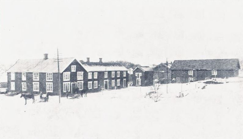 Skatval Handelslag (consumer co-operative), established in 1906.